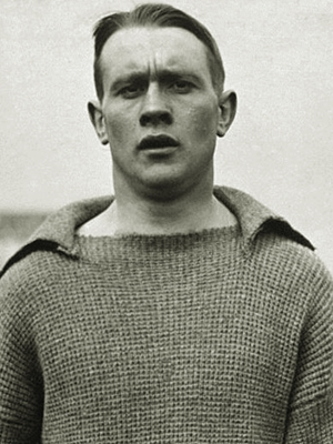 George Pither - Millwall FC - Depicted on a postcard from 1921.